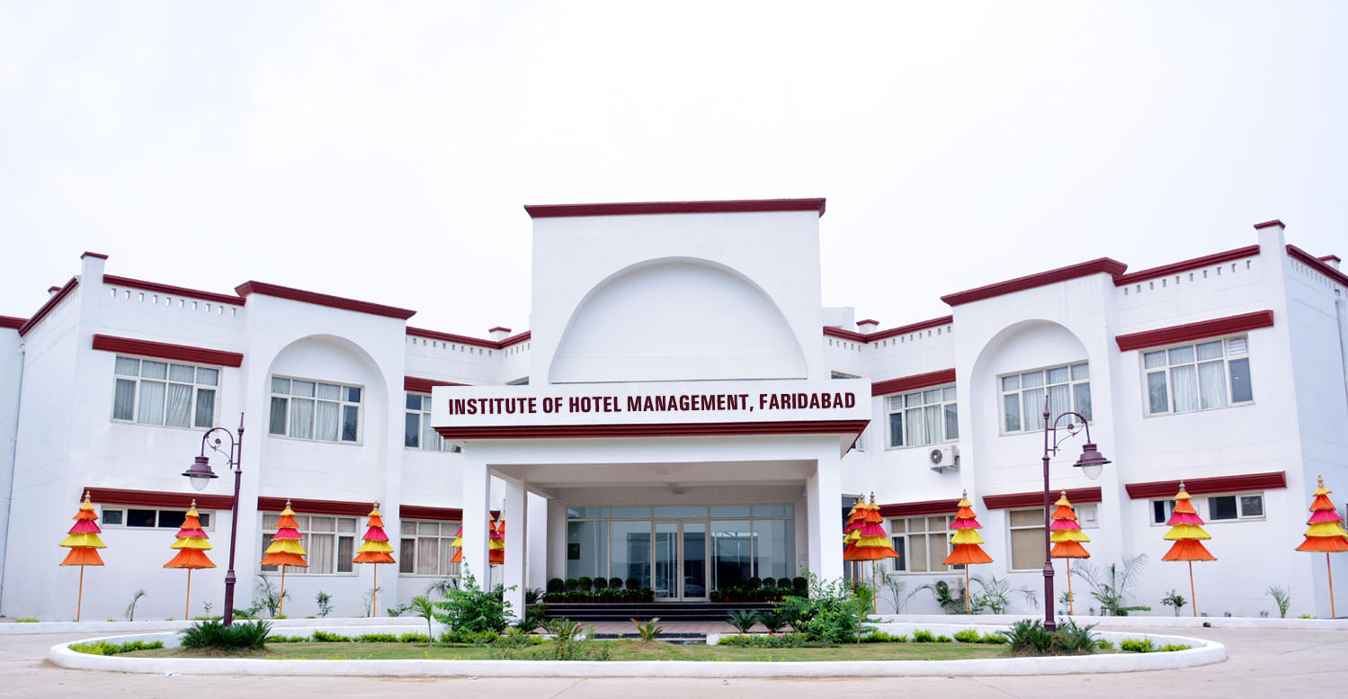 IHM Faridabad is a catering and hospitality institute which is located in Haryana, India. This picture is a new campus of IHM Faridabad.